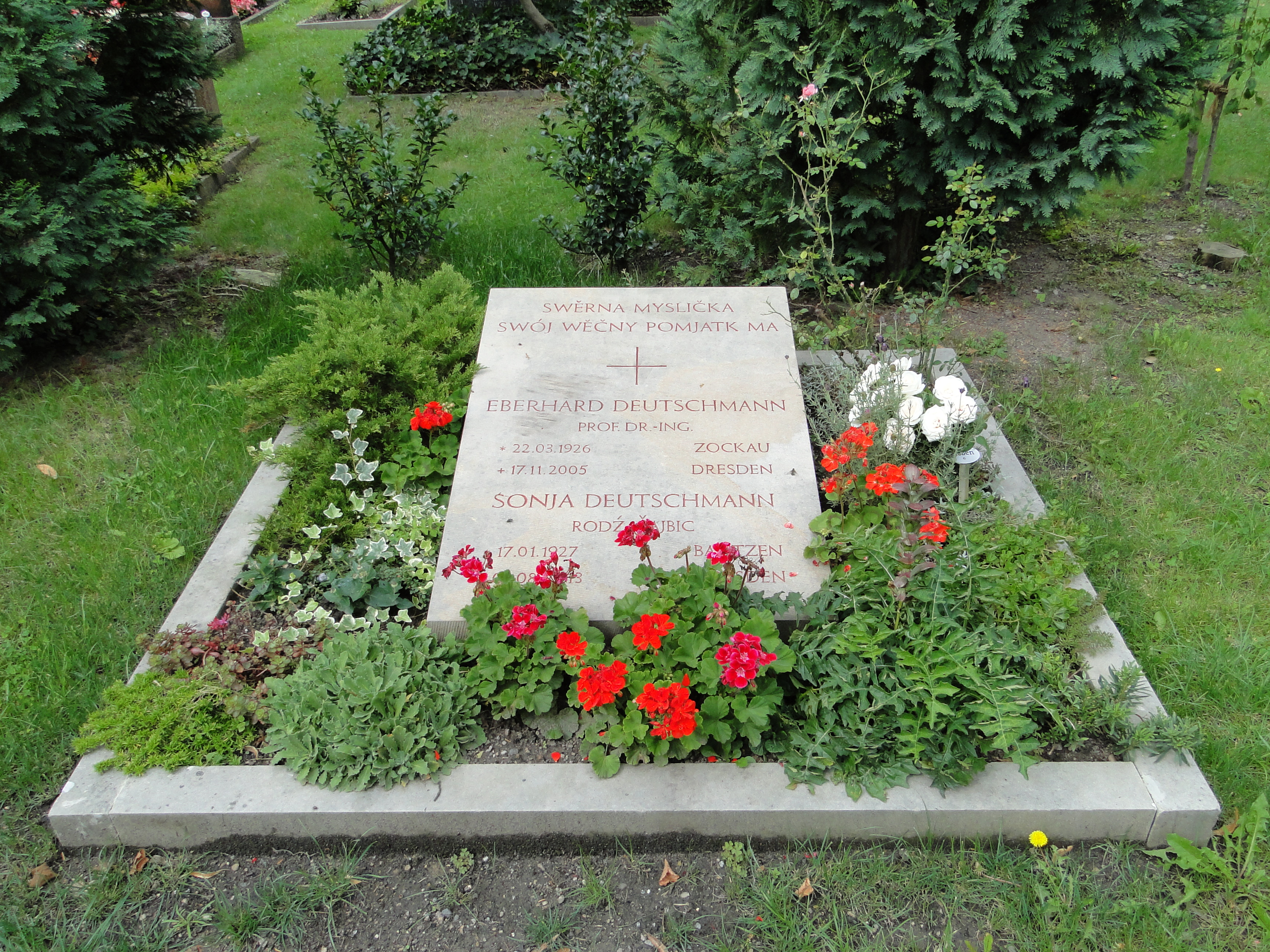 Grave of Eberhard Deutschmann at the Old Catholic Cemetery in Dresden